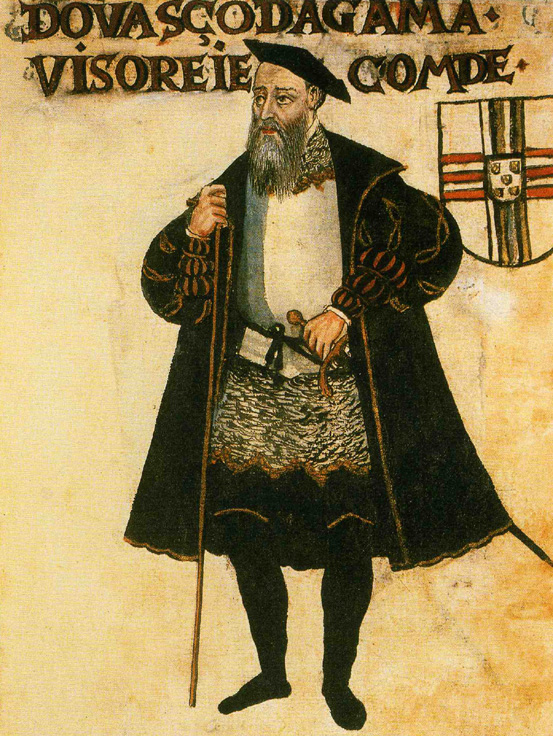 Portrait of navigator Vasco da Gama, viceroy of Portuguese parts captured in India, from the c.1565 compendium, Livro de Lisuarte de Abreu (Pierpont Morgan Library, M.525)